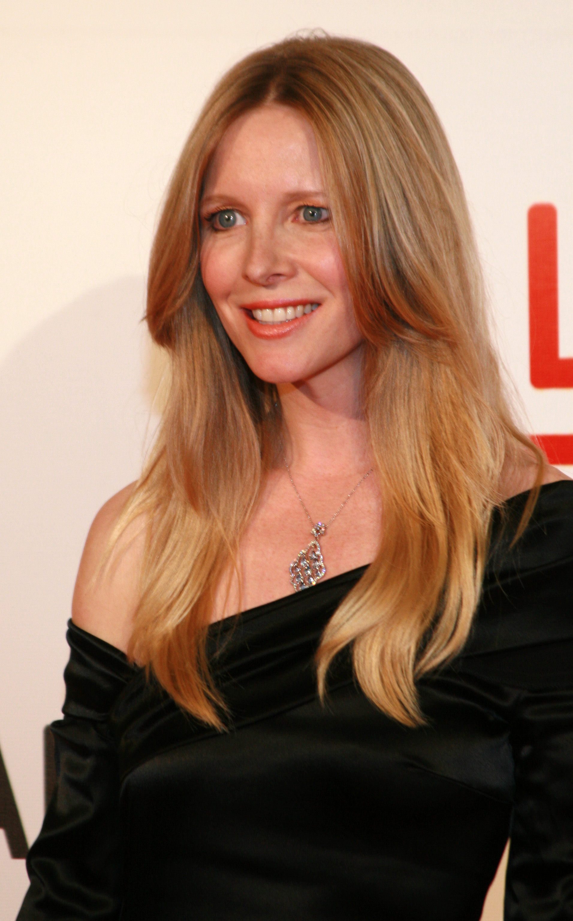 Lauralee Bell arrives at the Opening of the Broad Contemporary Art Museum on February 9, 2008 in Los Angeles, CA.